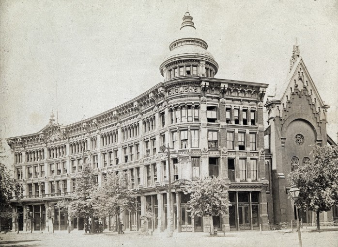 English's Opera House on Monument Circle in Indianapolis (since demolished). Photo from 1889.